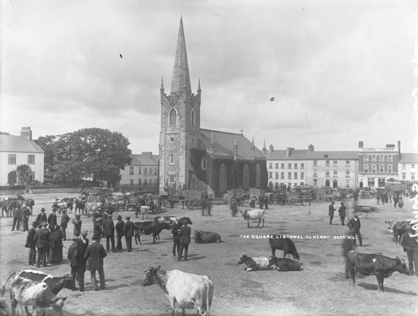 Photograph taken between 1880 and 1900 Format: glass negative Part of: National Library of Ireland Lawrence Collection. For more photographs in this collection see National Library of Ireland catalogue: Reference number: L_ROY_09835